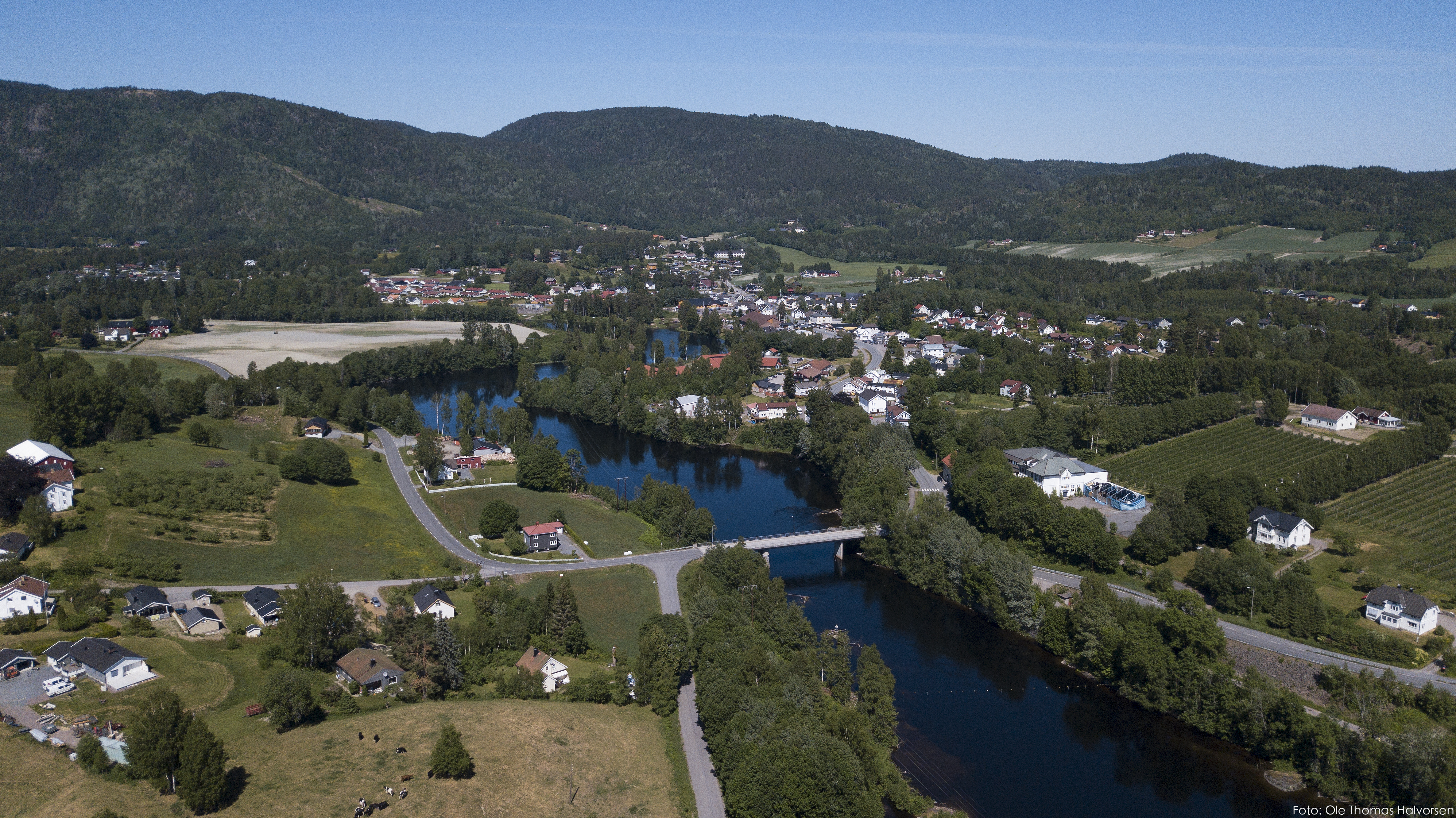 Hvittingfoss 2018